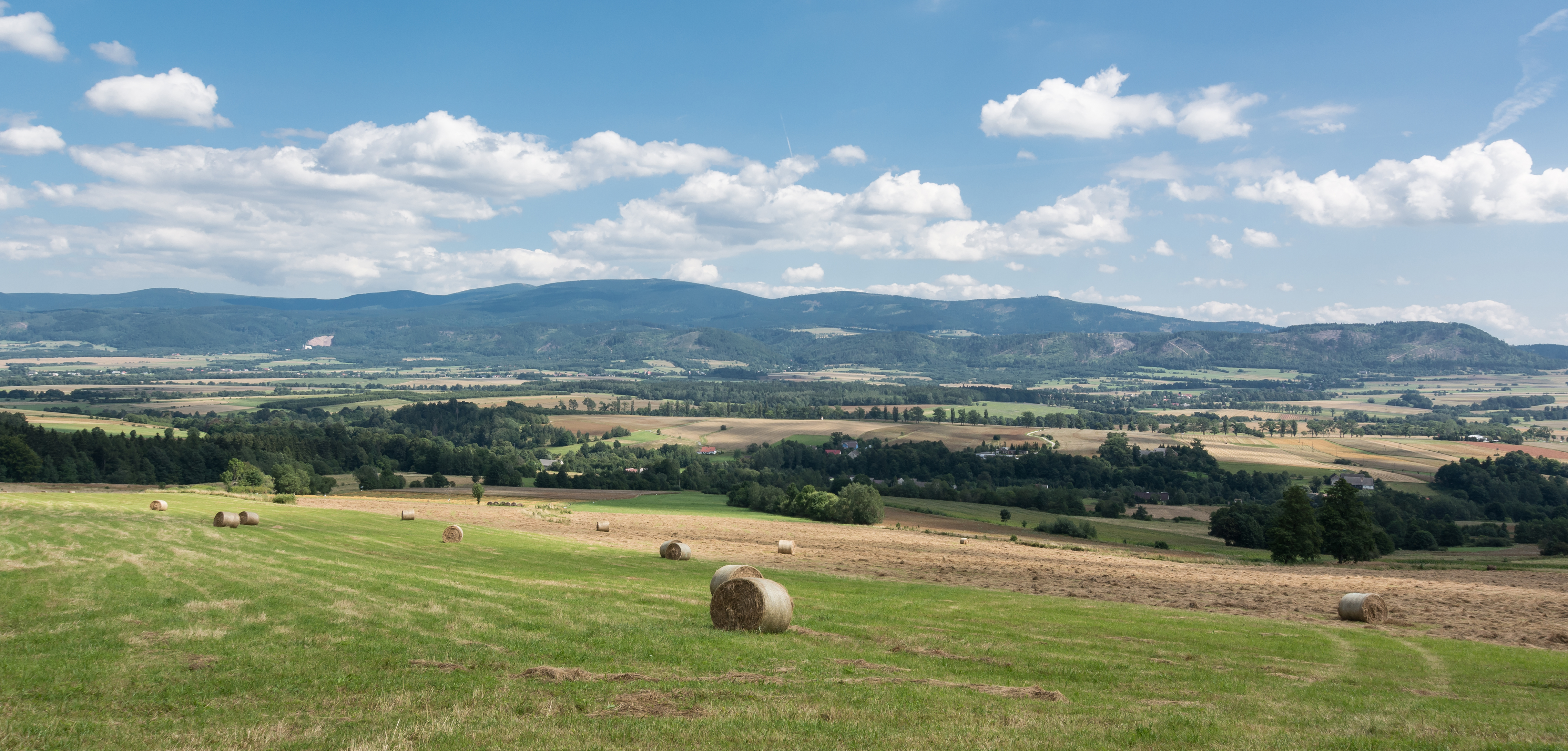 Śnieżnik Mountains, Sudetes